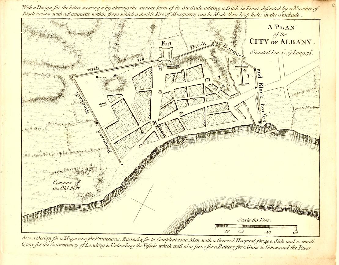 Plan of the City of Albany, New York, 1765.